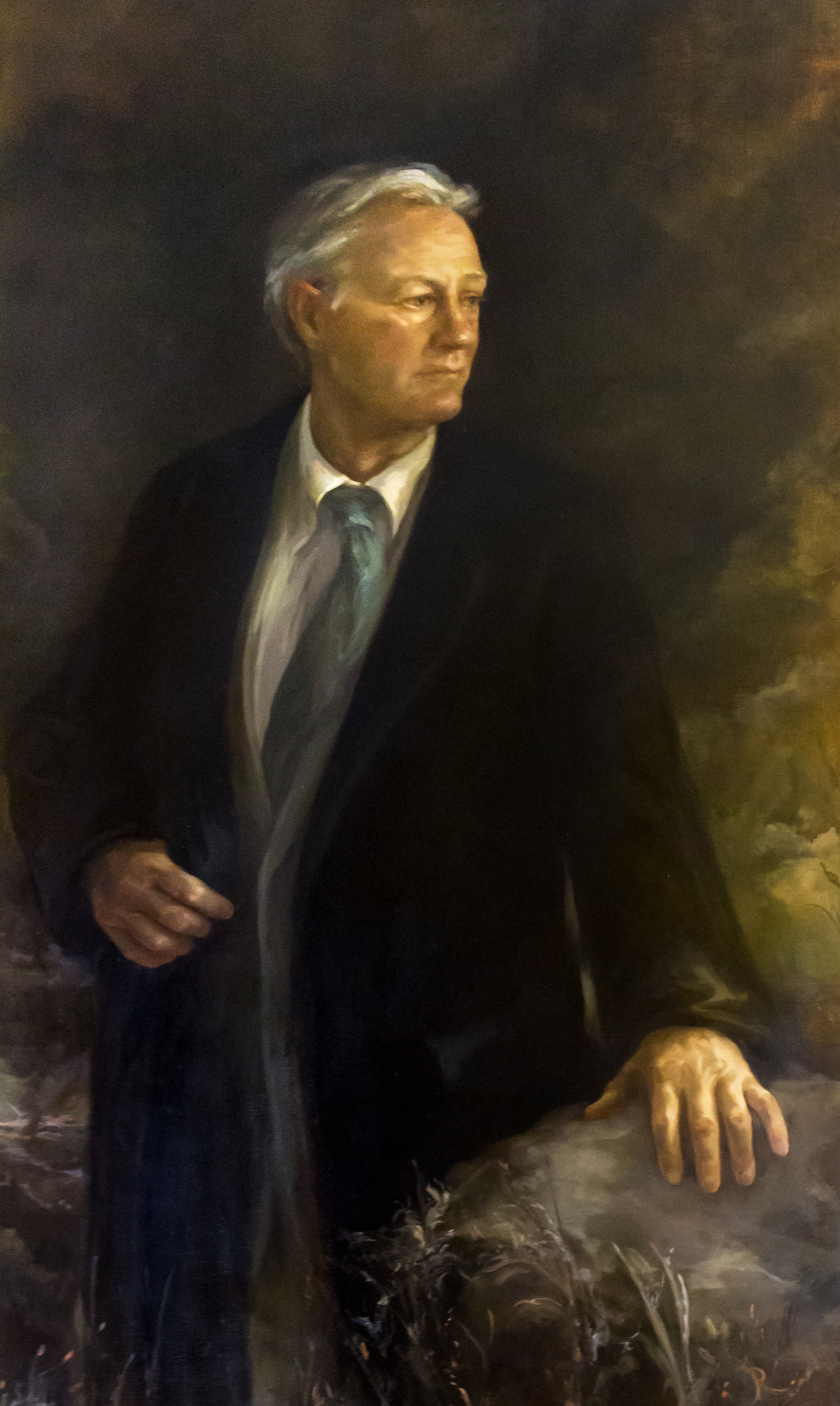 RI Governor Lincoln Chafee, official portrait in the Rhode Island State House collection.